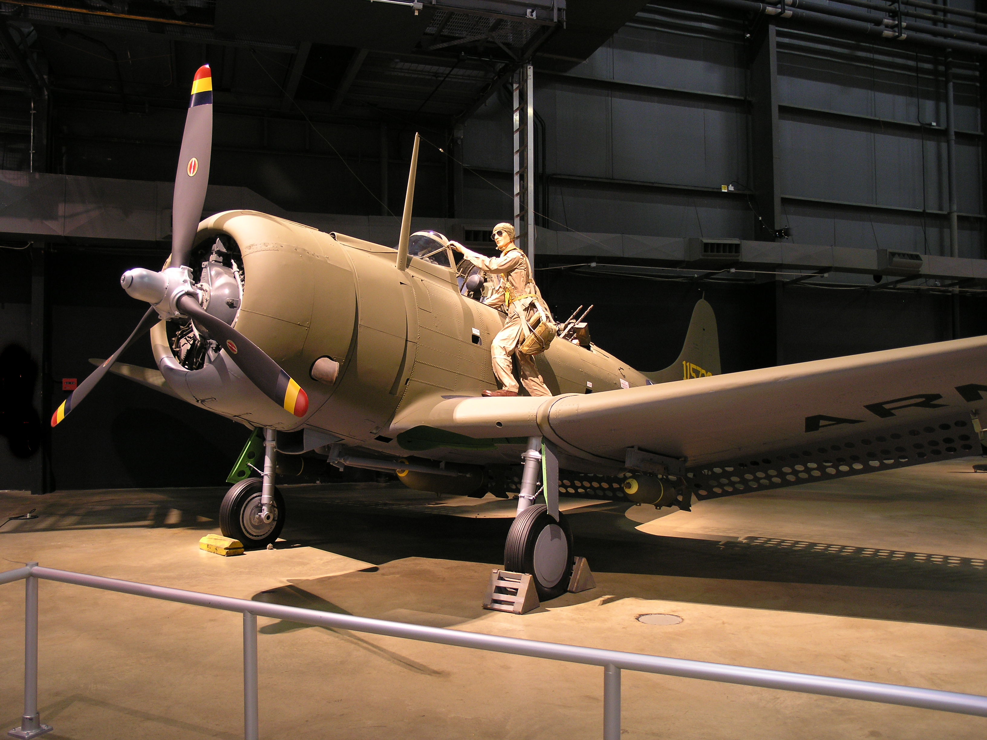 Army A-24 Banshee at the National Museum of the United States Air Force.